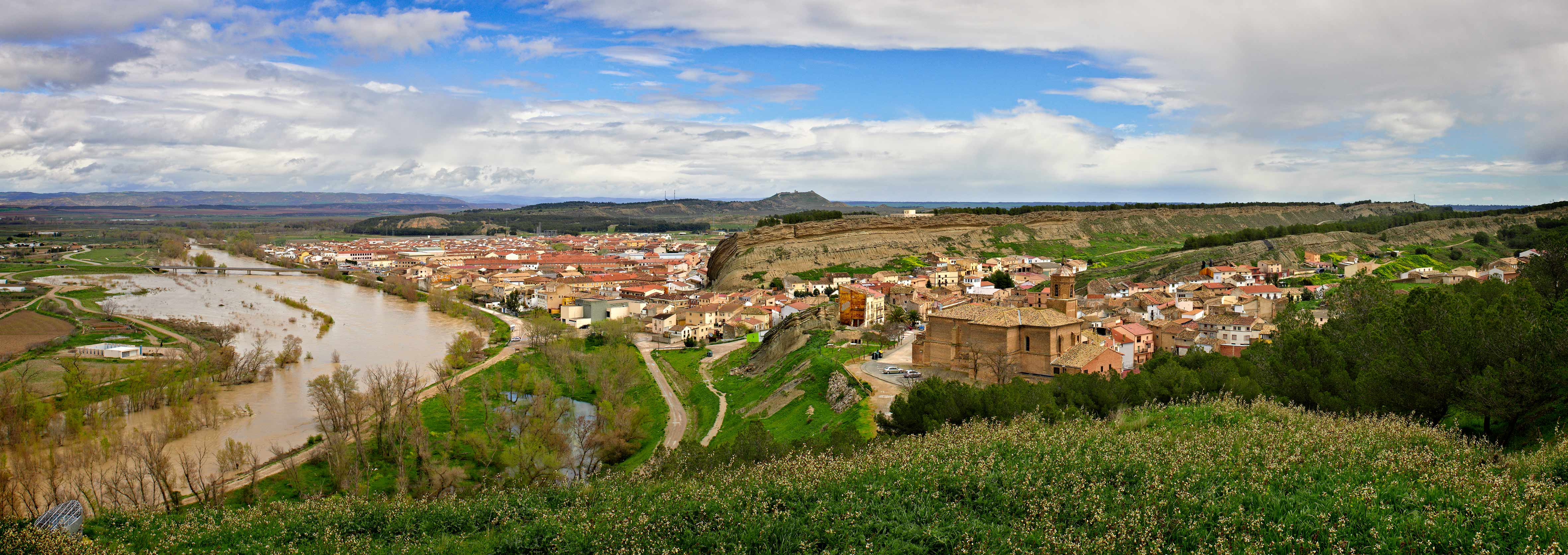 Caparroso general landscape, Navarra, Spain